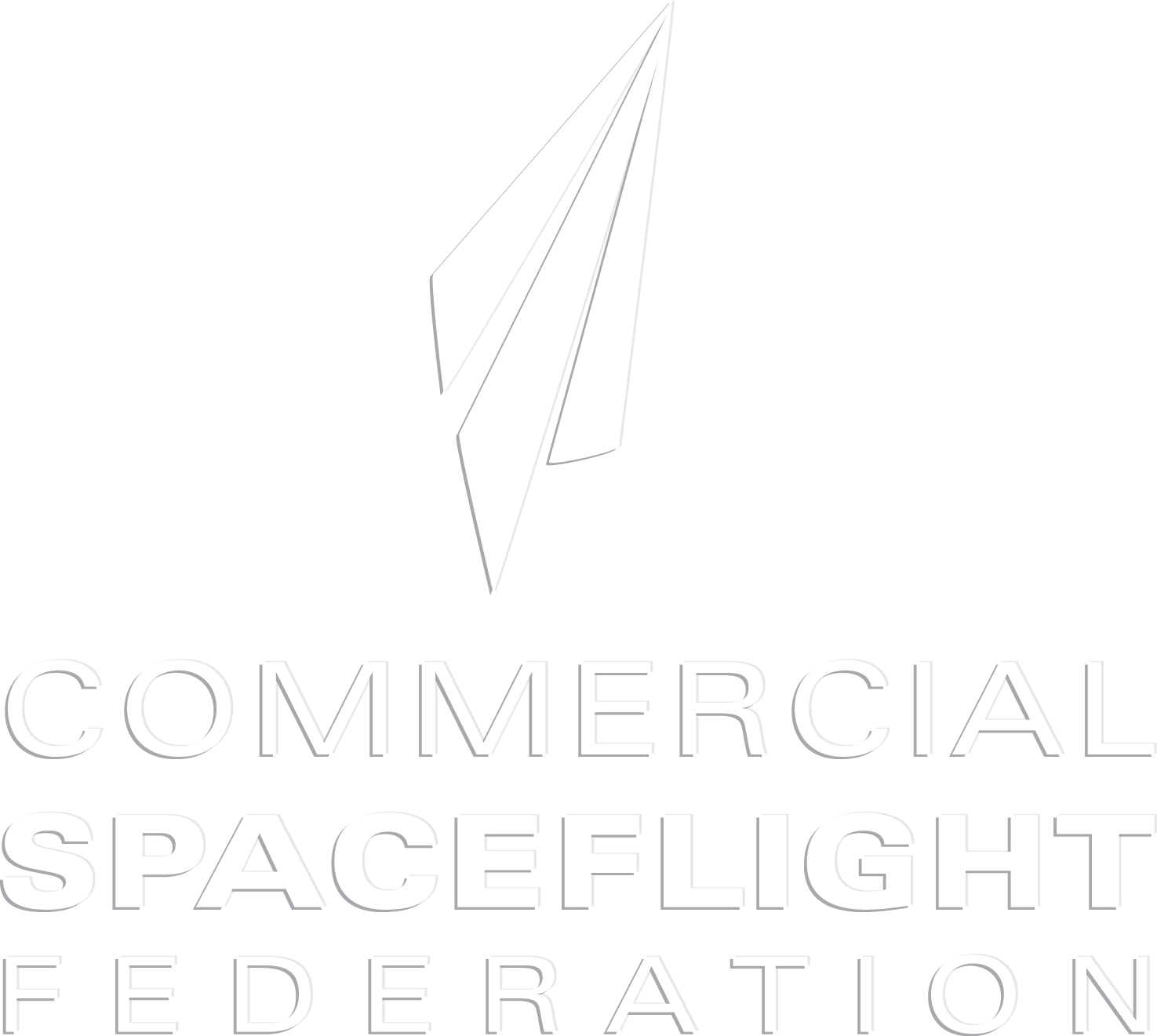 CSF Logo 2019